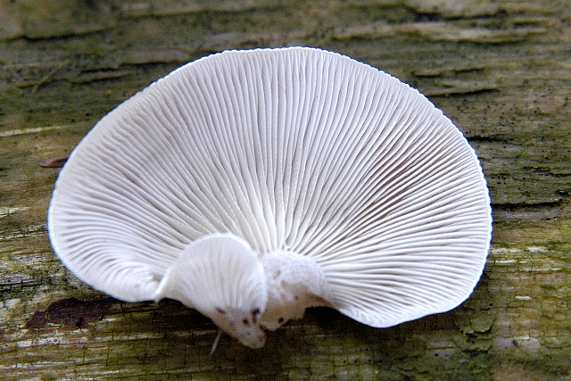 Panellus mitis from Commanster, Belgium. The determination of the species shown in this picture has been verified.